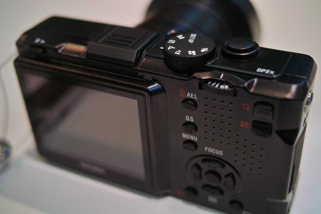 Sigma DP2x, rear view.